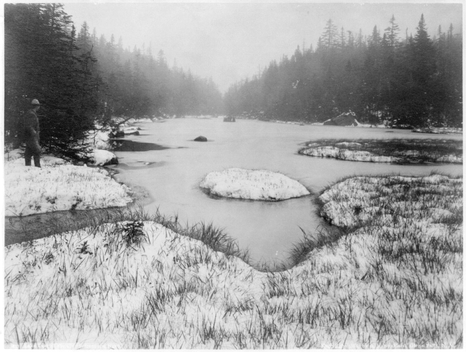 Adirondack Mountains, N.Y., USA: Lake Tear of the Clouds (from the head), source of the Hudson River photographed by Seneca Ray Stoddard in the late 19th century.